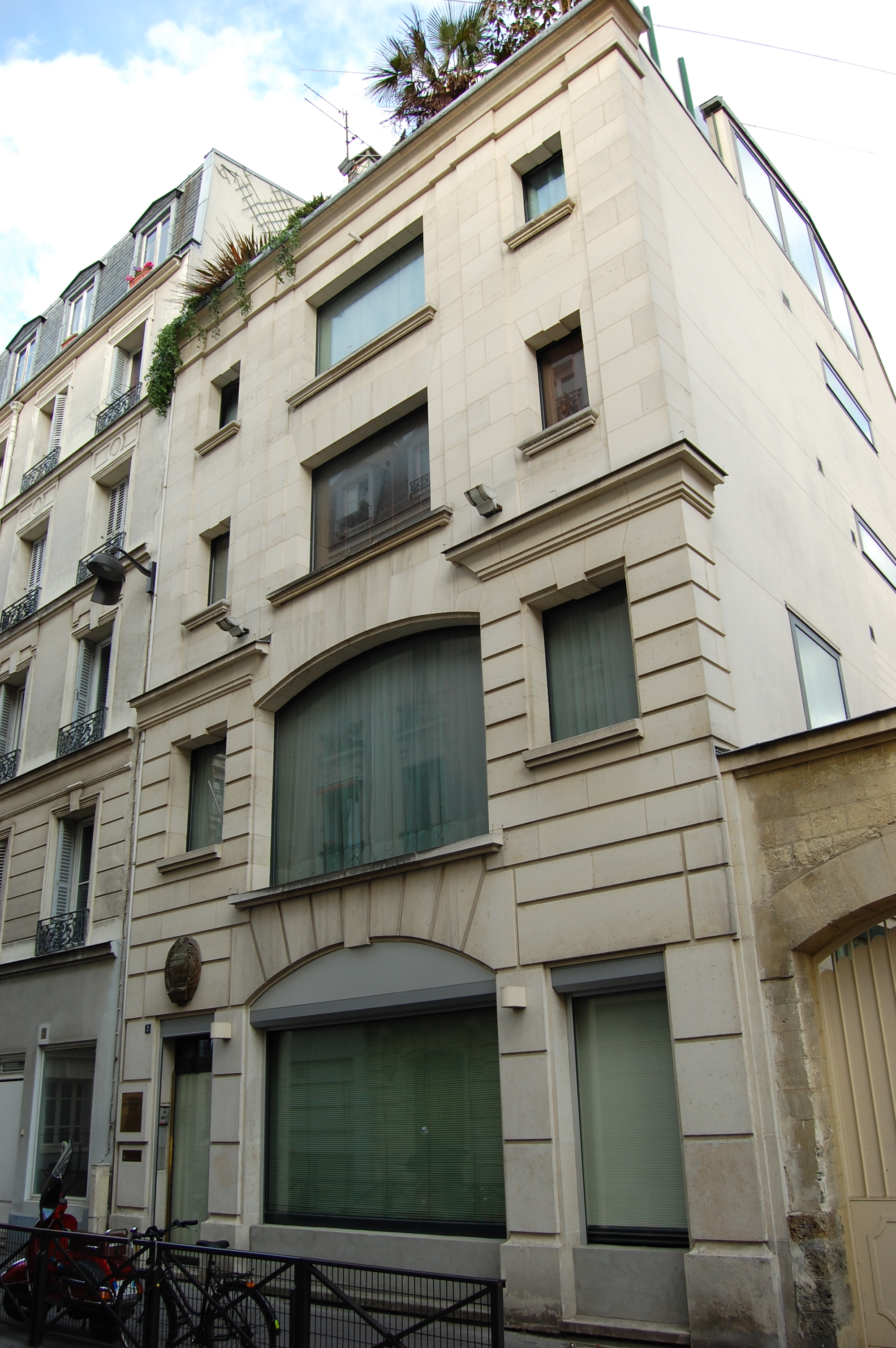 Diplomatic delegation of the Democratic People’s Republic of Korea (North Korea) in France, 3 rue Asseline, Paris.